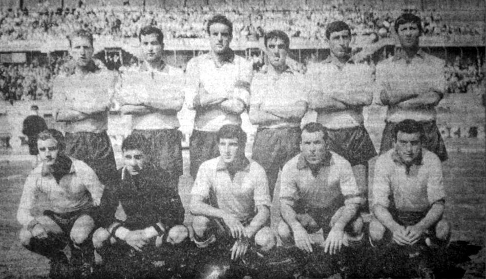 Catania (Italy), "Cibali" Stadium, May 21, 1966. A line-up of A.C. Massiminiana took to the pitch in the home victory versus A.S. Enna (40), Matchday 34 of the Italian League 1965–66 Serie D, group F. From left to right, standing: Sframeli, Manasseri, P. Anastasi, Prenna, Polizzo, Turus; crouched: Forti, Bongiovanni, Di Pietro, Marino, Samperi.